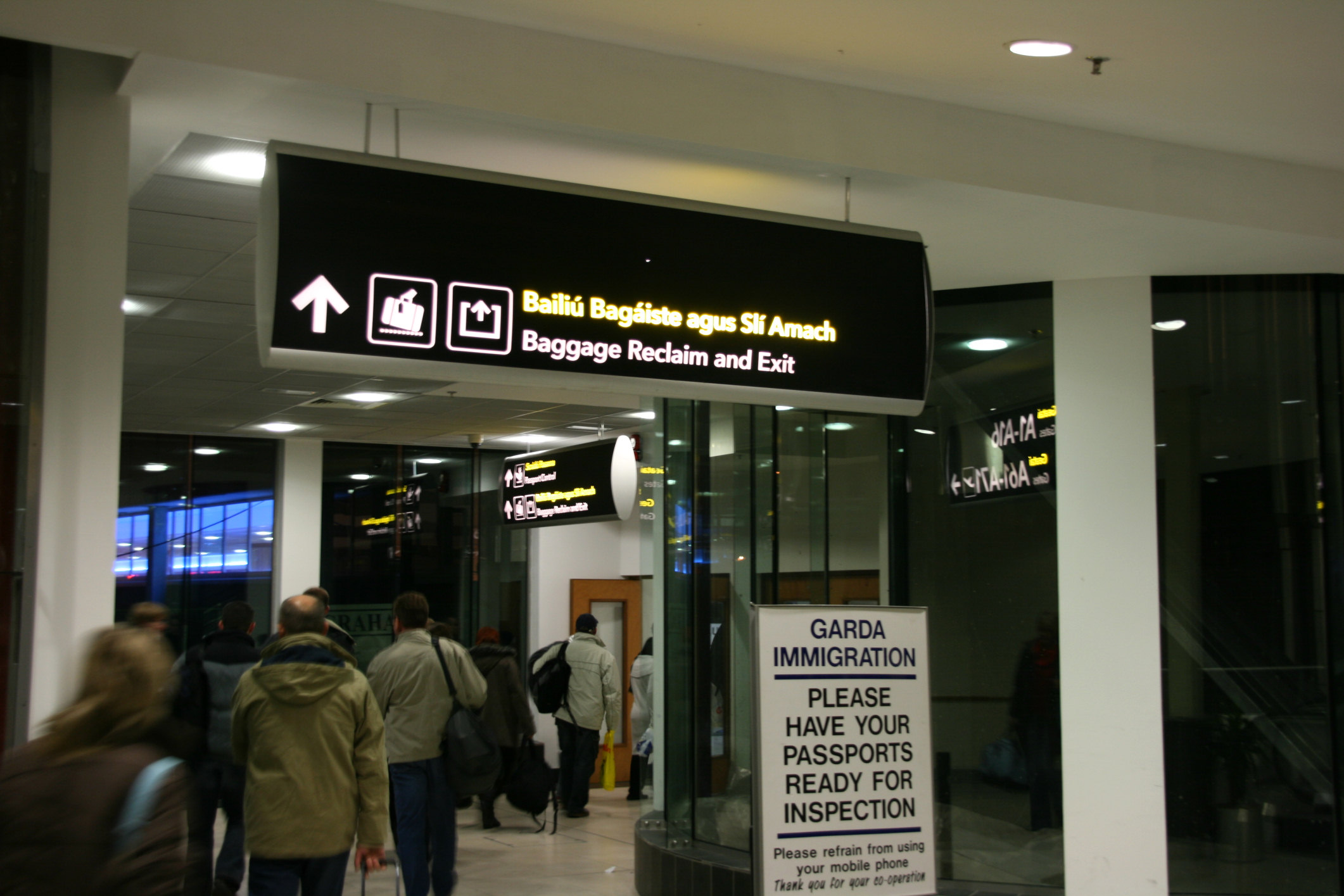 Dublin International Airport - baggage reclaim signs in English and Irish.